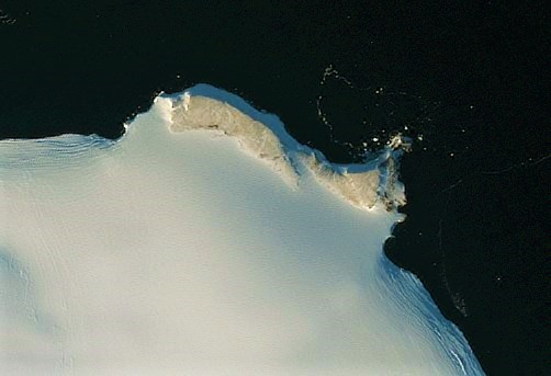 Cape Fligely, Rudolf Island, Franz Josef Land archipelago, Russia, Sentinel-2 satellite imagery, near natural colors, spatial resolution 10 m |date=2017-09-06